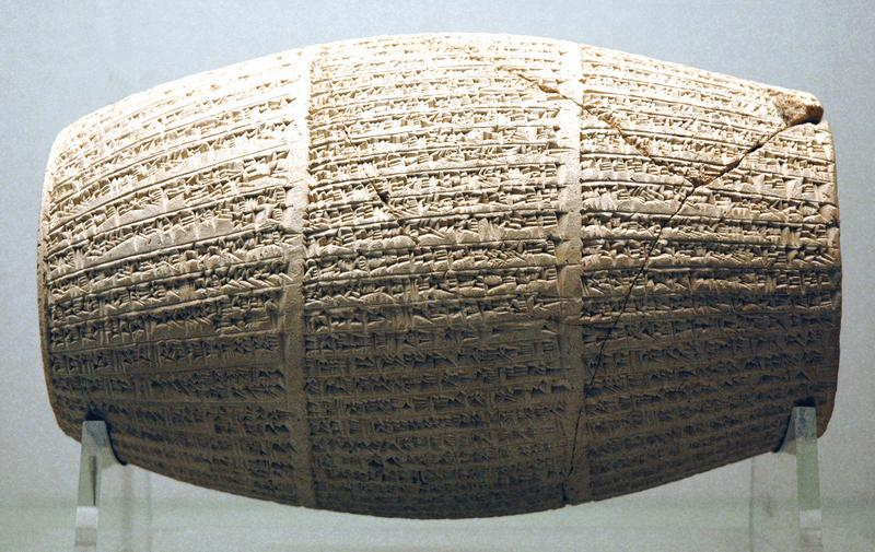 Photo Marco Prins and Jona Lendering, from .